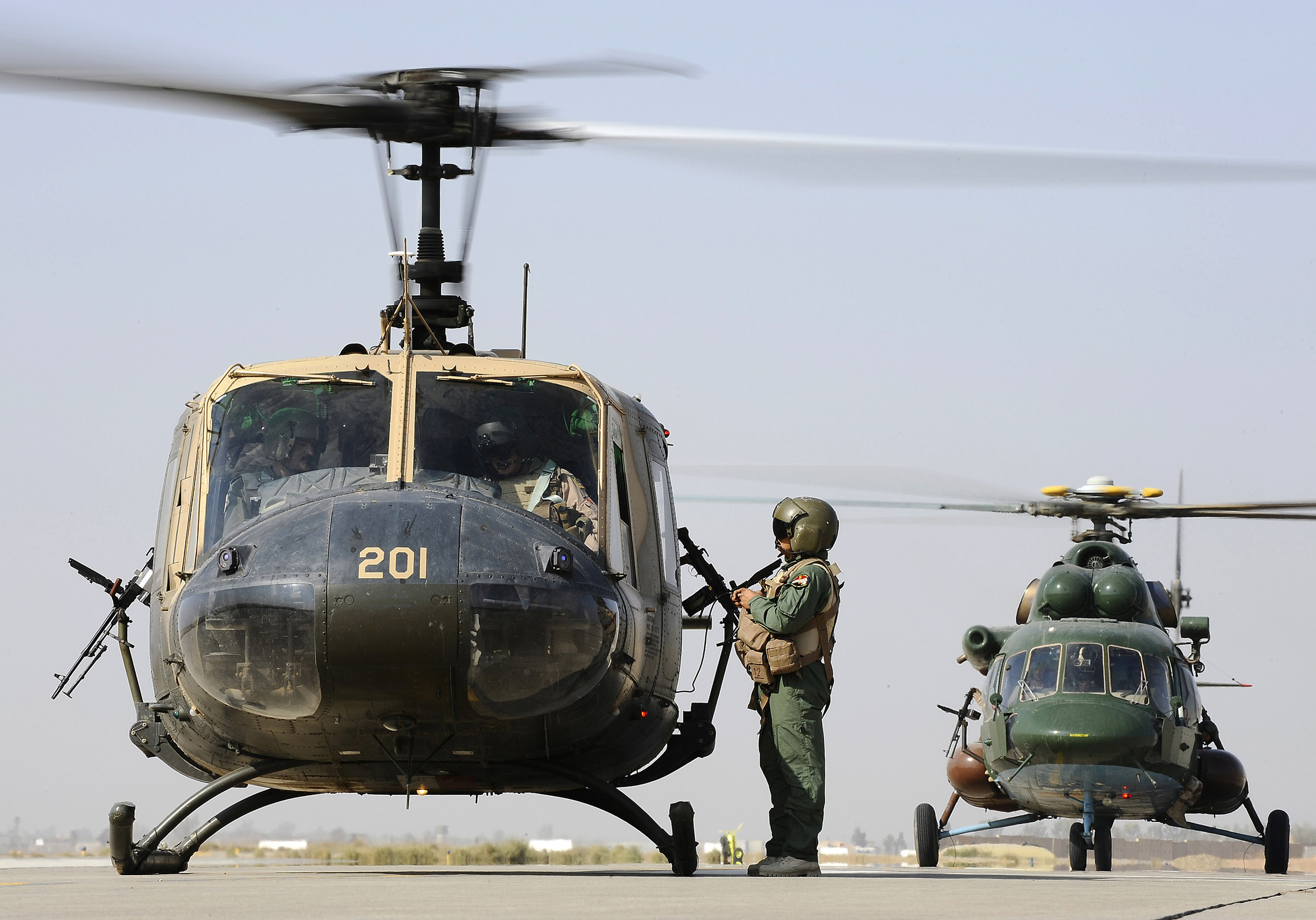 Iraqi air force carries wounded warrior on aeromedical evacuation mission: An Iraqi UH-1H Iroquois "Huey" helicopter and an Iraqi Mi-17 Hip helicopter prepare to transport a wounded Iraqi servicemember from Joint Base Balad, Iraq, to Forward Operating Base Gabe in Baqubah, Iraq, Nov. 21. The servicemember arrived at the Air Force Theater Hospital at Joint Base Balad Nov. 16 with a gunshot wound to his leg. The Iraqi air force is developing its aeromedical evacuation capabilities to take on a greater role in transporting its patients.